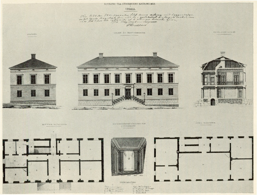 One of architect Johan Fredrik Åbom's drawings for the building (completed 1848) of Stockholms nation, a student society at Uppsala University in Sweden.